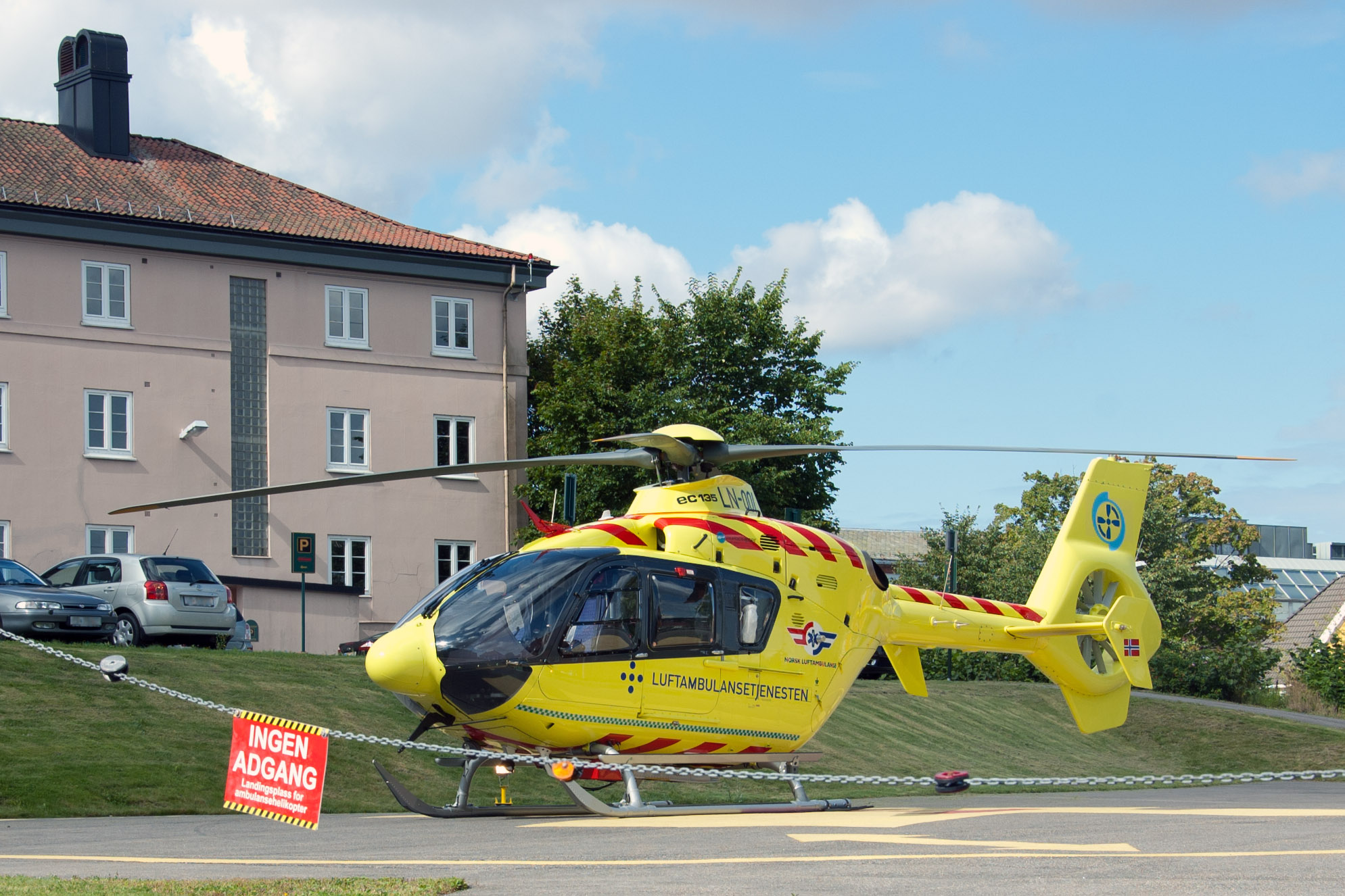 Norsk Luftambulanse, Eurocopter EC 135 P2, LN-OOI